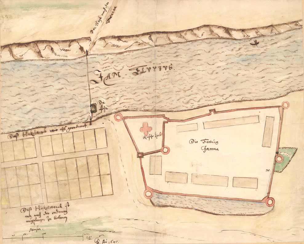 Yam fortress and city on a swedish map of 1645. Ferry marked.